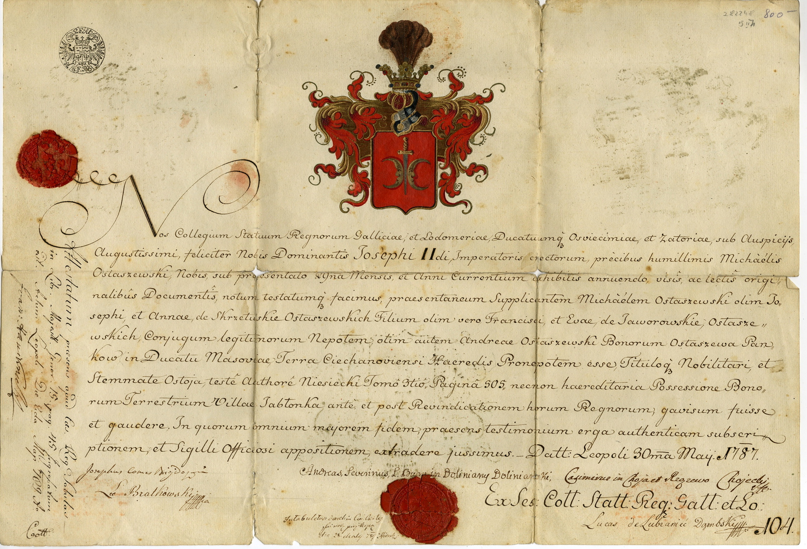 Certificate of nobility issued by the Herold's Office of Galicia (Collegium Statuum Galiciae) for Michał Ostaszewski in 1787